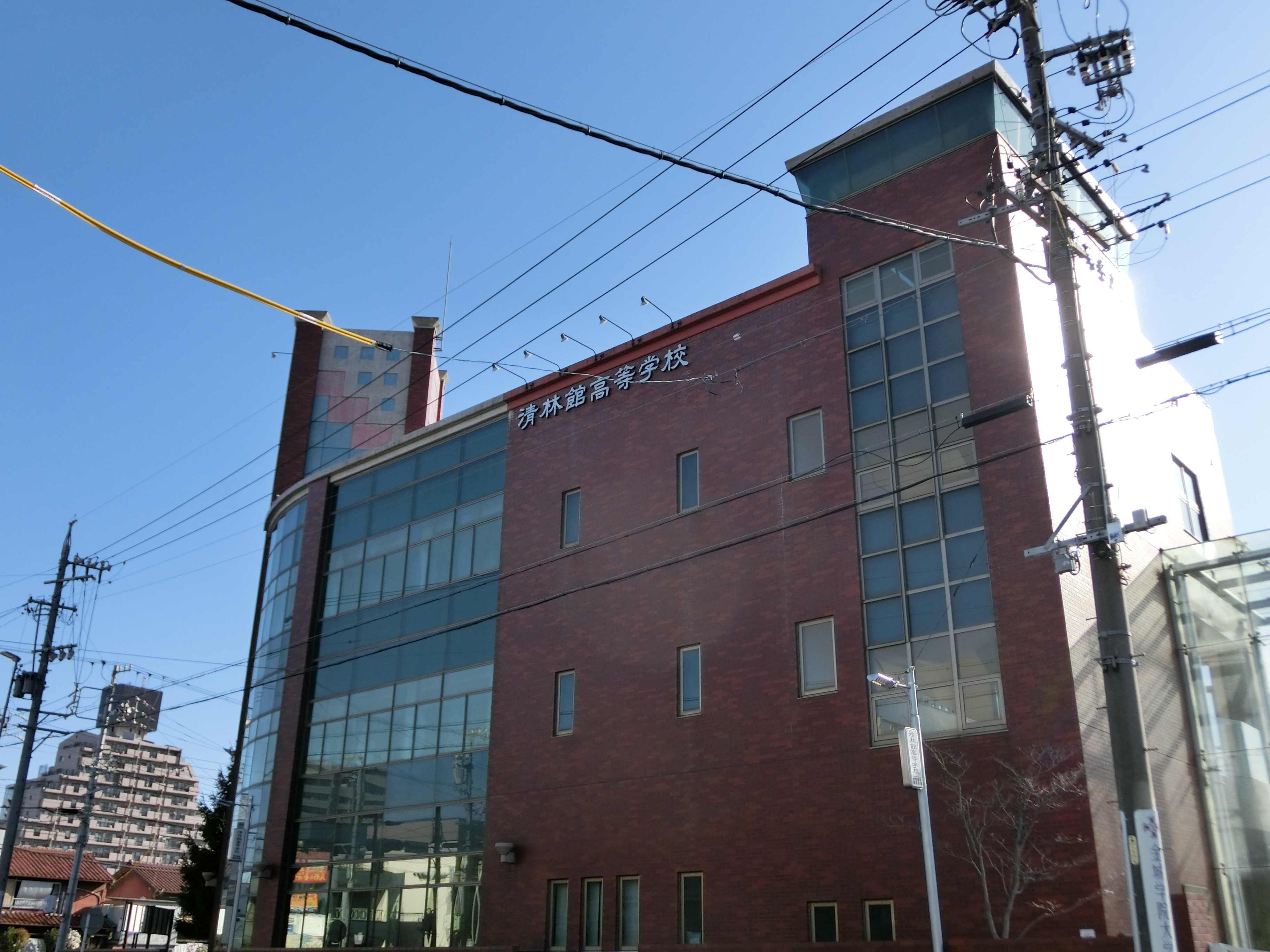 Seirinkan High School Hommachi Campus